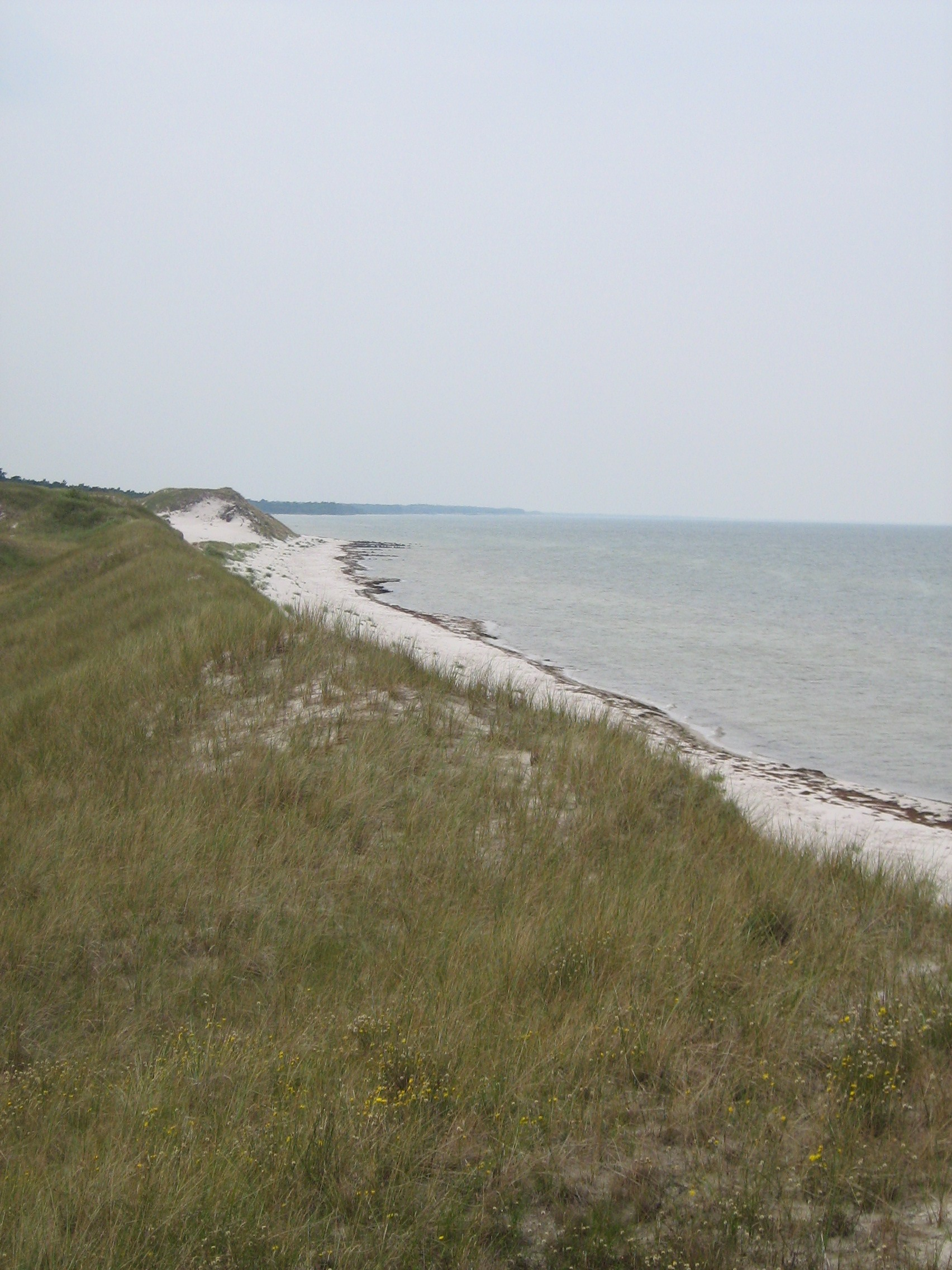 The high dune on peninsula Zingst